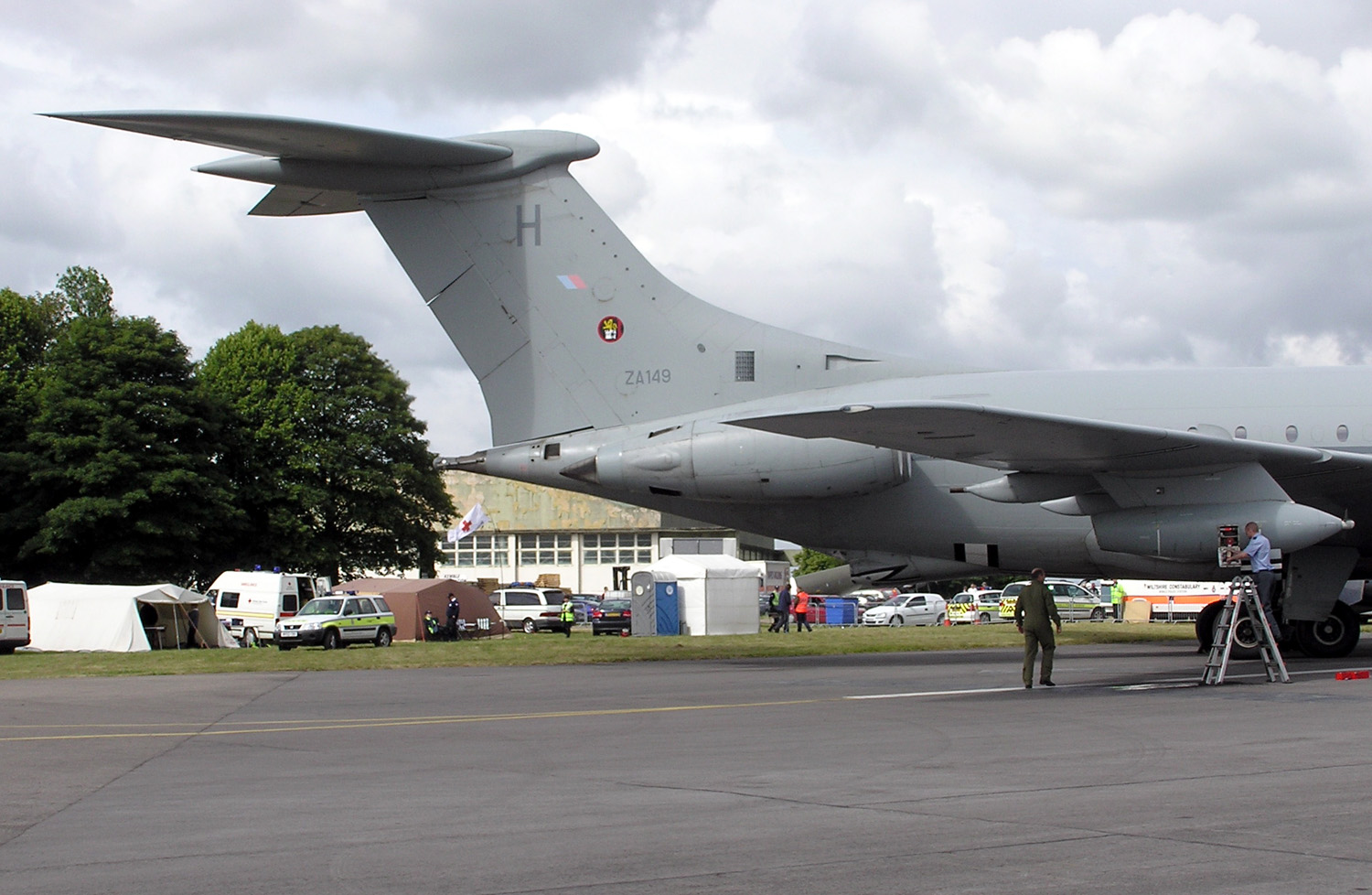 Vickers VC-10 refuelling tanker ZA149 at Kemble Airfield, Gloucestershire, England.